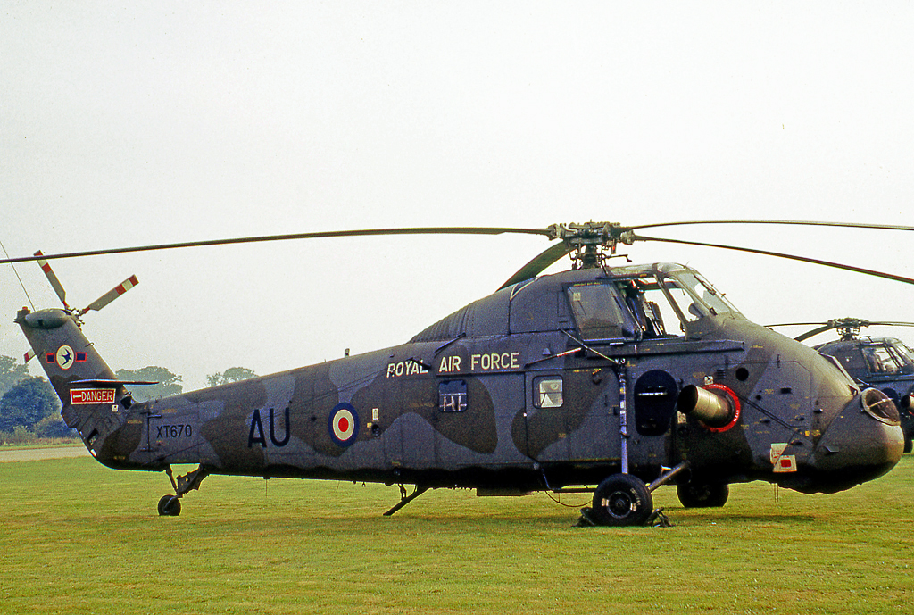 Westland Wessex HC.2 XT670 'AU' of No. 72 Squadron RAF at RAF Coltishall in 1971